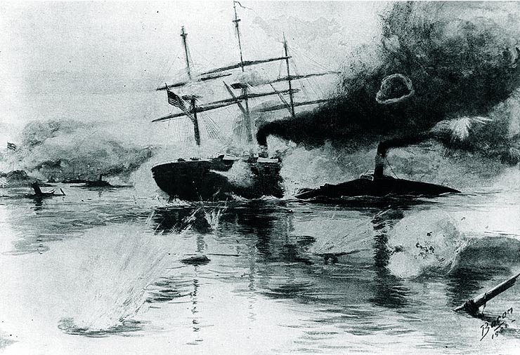 Picture of the USS Brooklyn, which is rammed by the CSS Manassas, during the battle of Forts Jackson and St. Philip, on the Mississippi River below New Orleans, 24 April 1862.